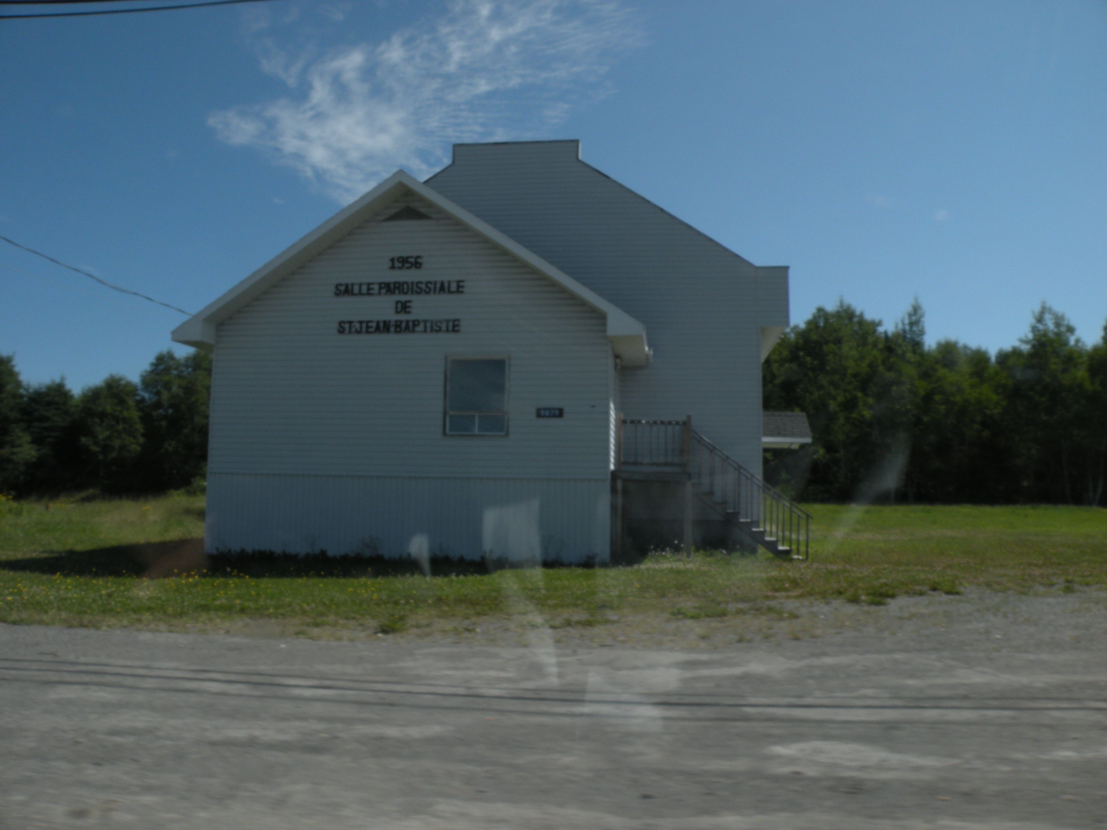 The parish hall in Saint-Jean-Baptiste-de-Restigouche, New Brunswick, Canada.